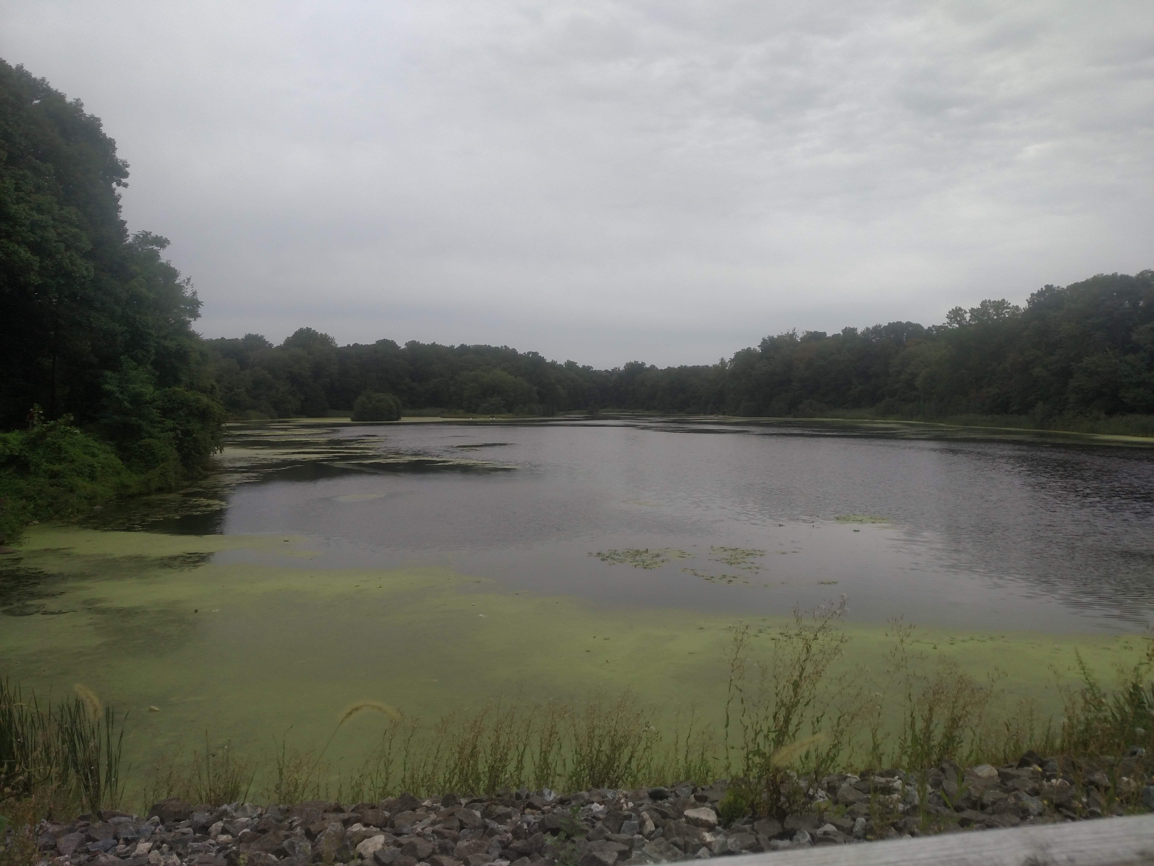 Hutchinson River Reservoir #3, looking north from the dam that impounds it (Dam #3). In Twin Lakes County Park in Westchester County, NY, USA. The reservoir dates to 1908 but is no longer used for water supply.